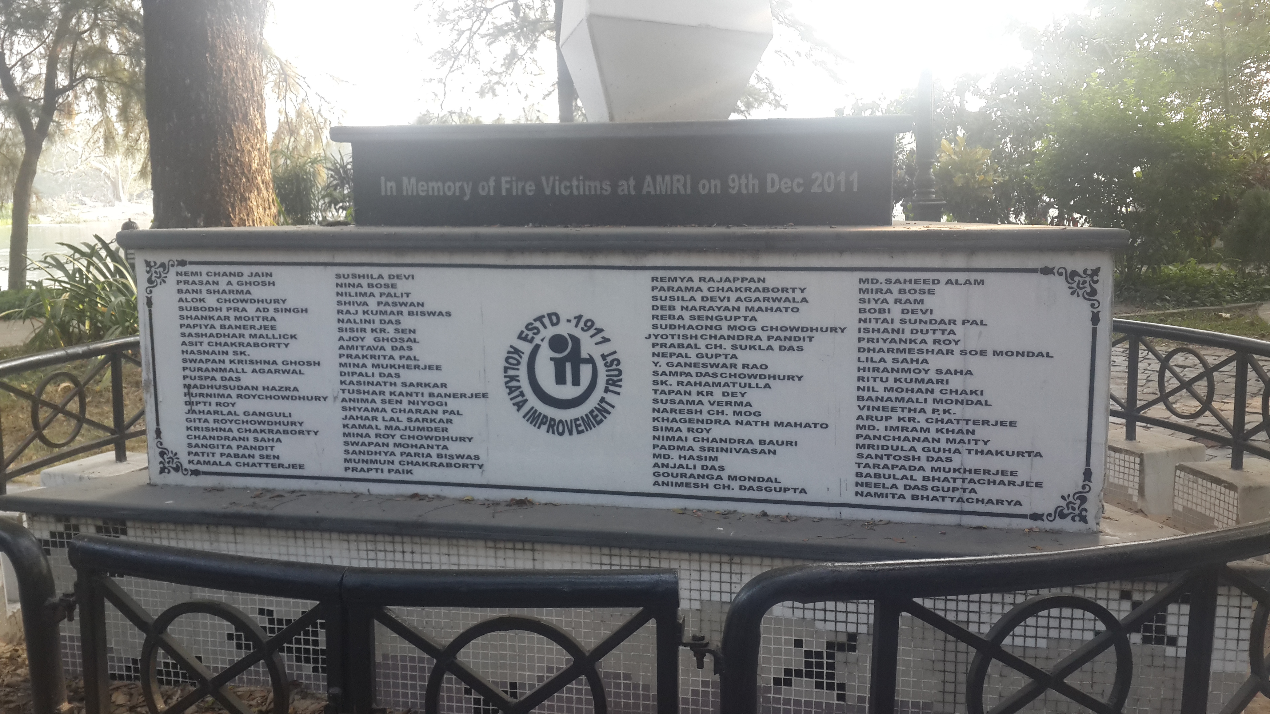 AMRI fire victims memorial in front of Rabindra Sarobar Lake